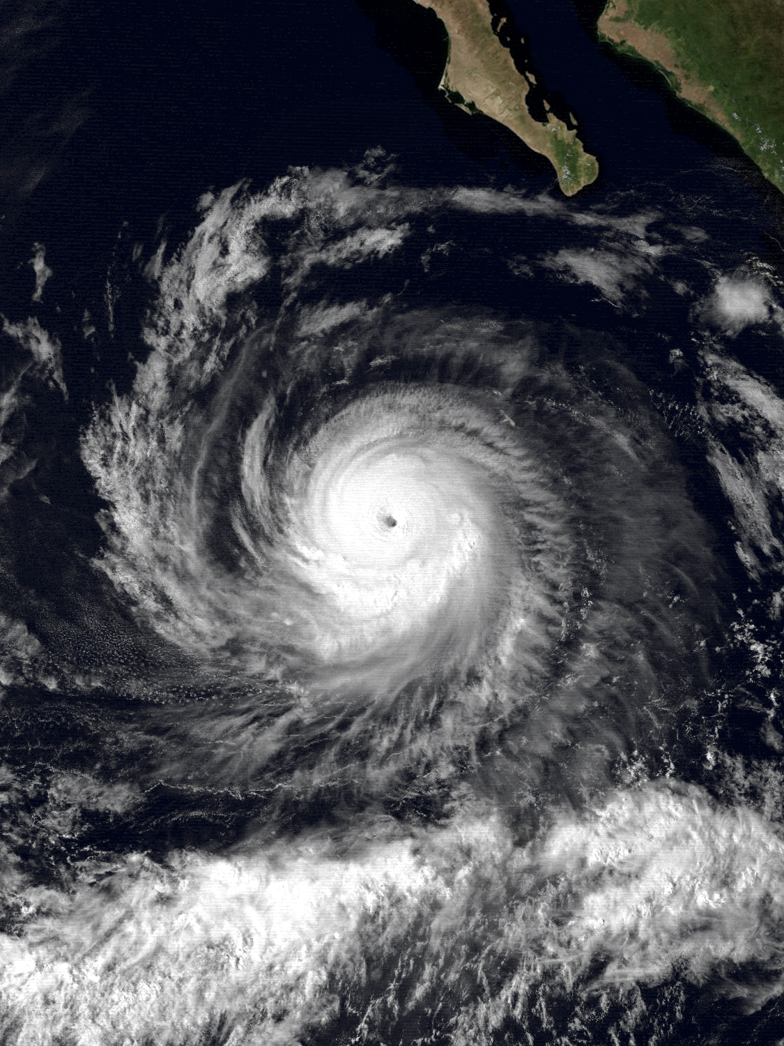 The VISSR instrument onboard the NOAA GOES-7 satellite captured this visible image of Hurricane Raymond on September 30, 1989, at 22:30 UTC. At the time this image was captured, Raymond was a Category 4 hurricane with maximum sustained wind speeds of 130 mph (215 km/h), and its minimum central pressure was 948 mb.